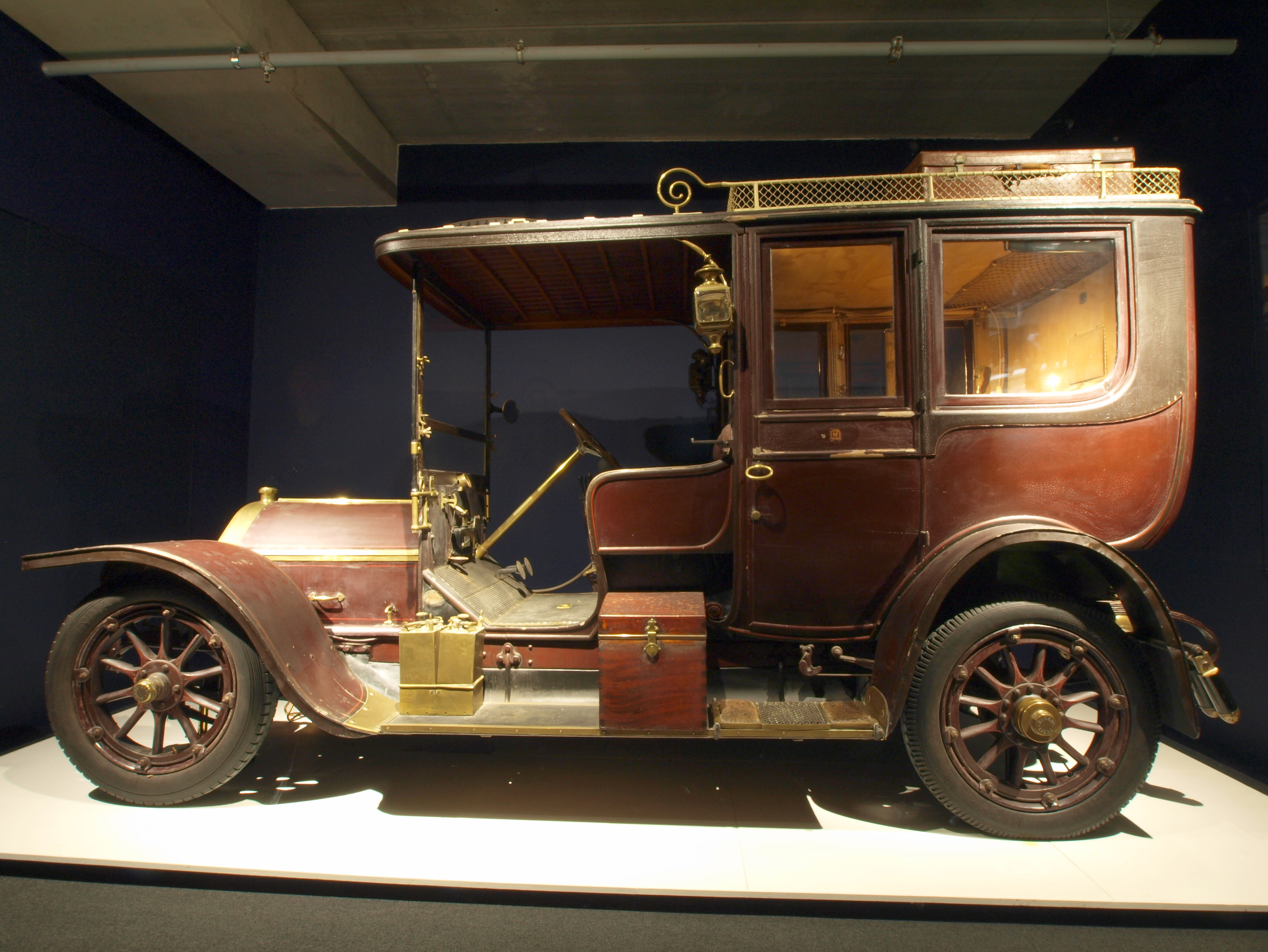 1909 Nagant Type D 14/16-HP. Photographed at the Louwman museum, The Netherlands.